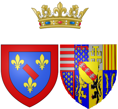 Arms of Louise Marguerite of Lorraine as Princess of Conti